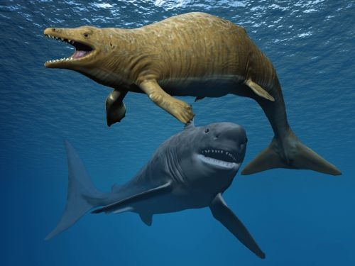 Aegyptocetus